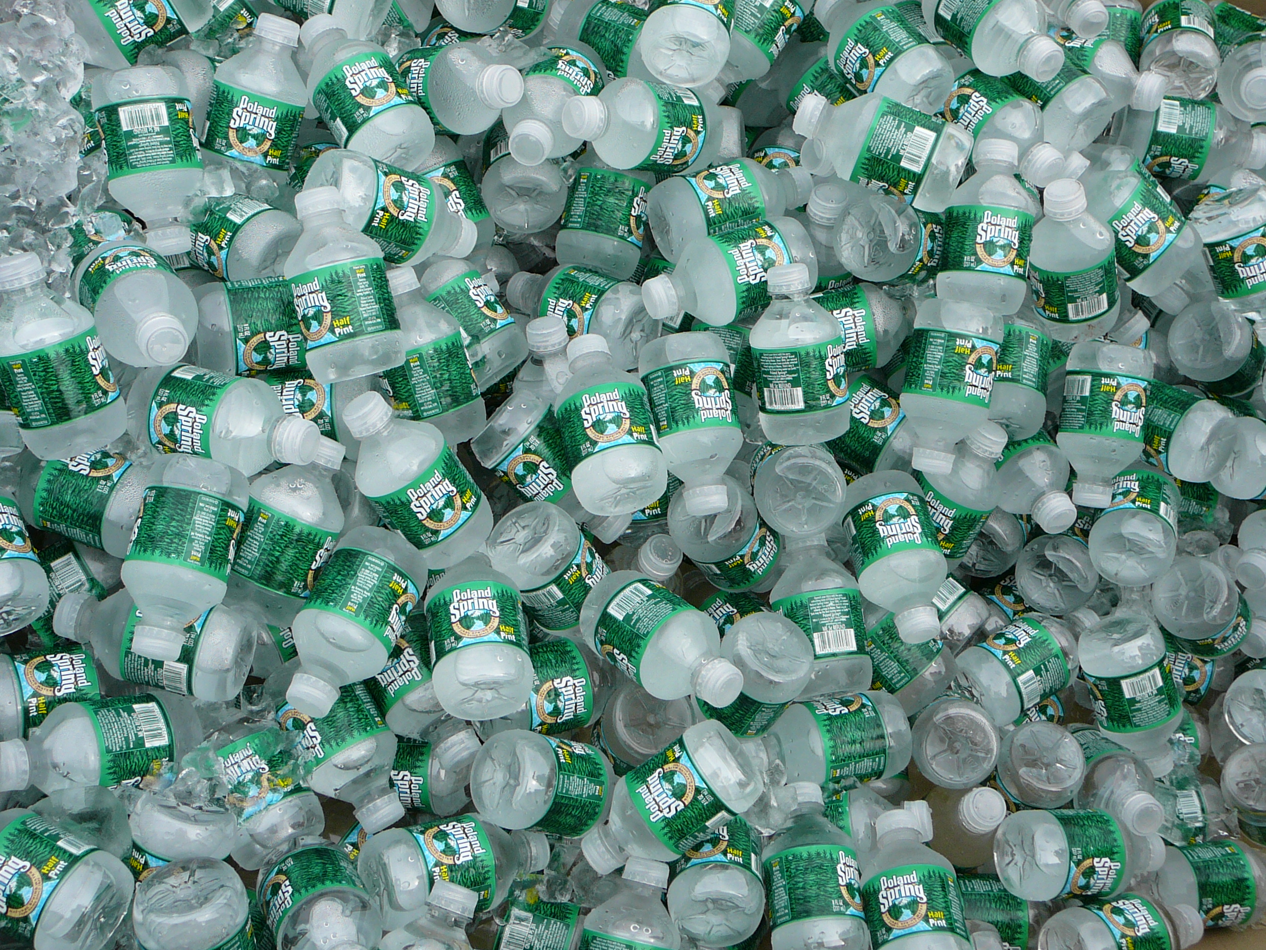 Lots and lots of bottled water